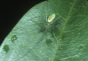 female Tetragnatha squamata from Okinawa.